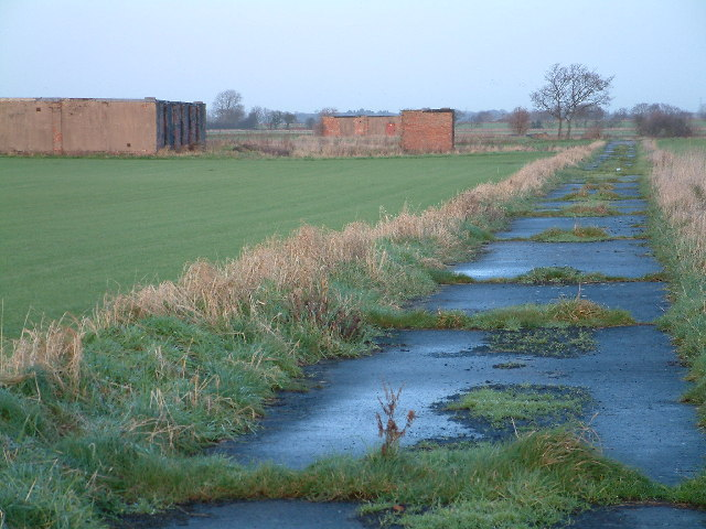 Ammunition Bunker's.